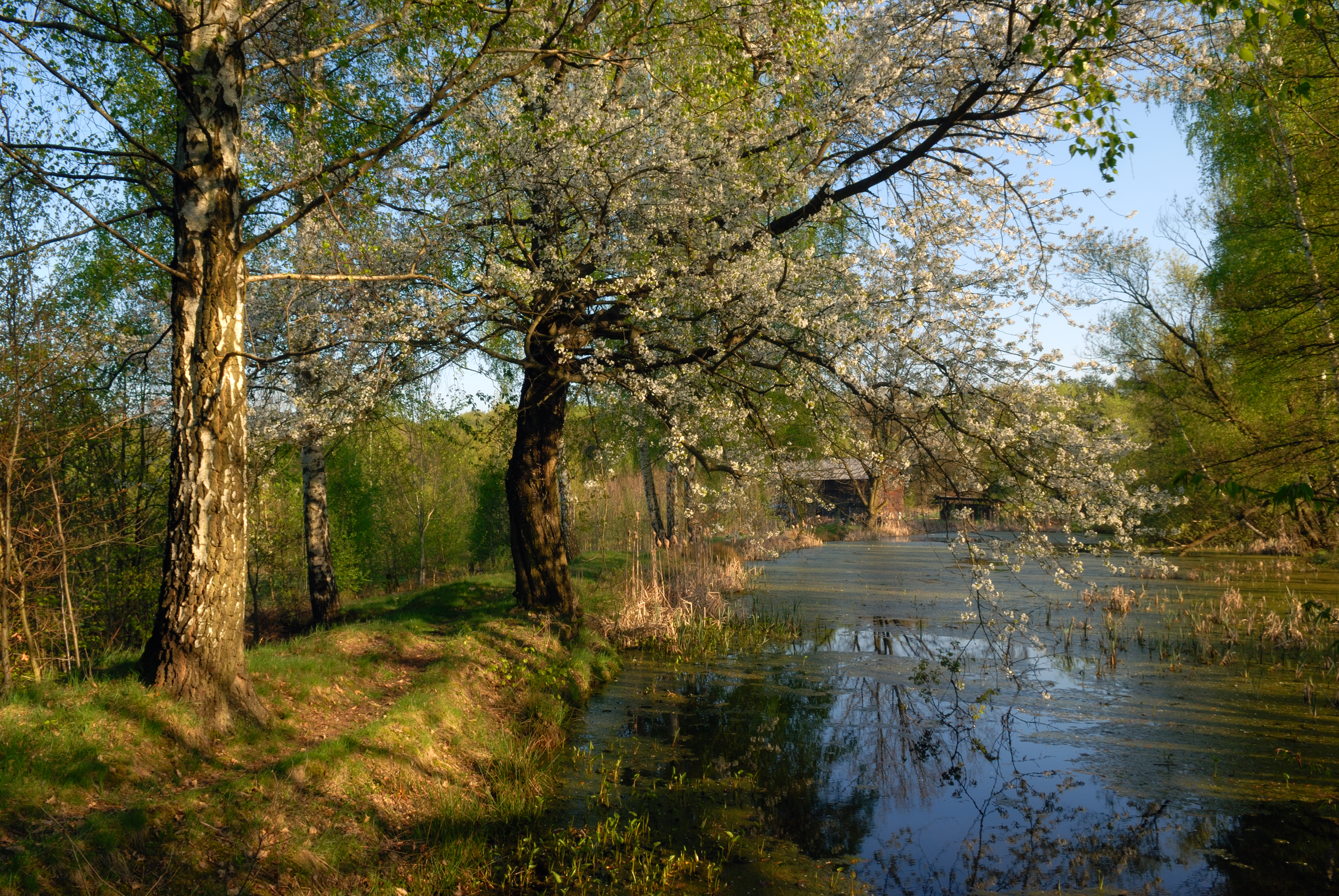 This image shows a pond in Waldhaus, a district of Mohlsdorf, Thuringia, Germany.